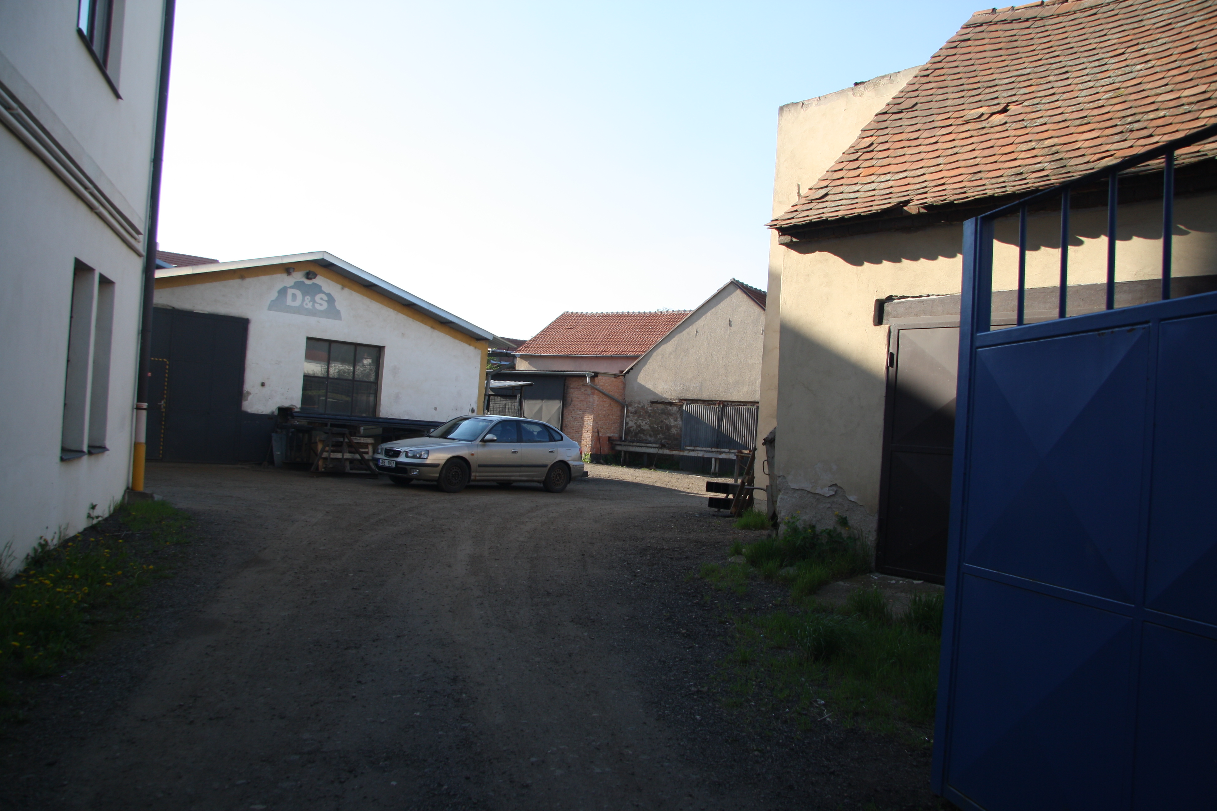 Place of Ivančice castle near house Palacký square 5 in Ivančice, Brno-Country District.